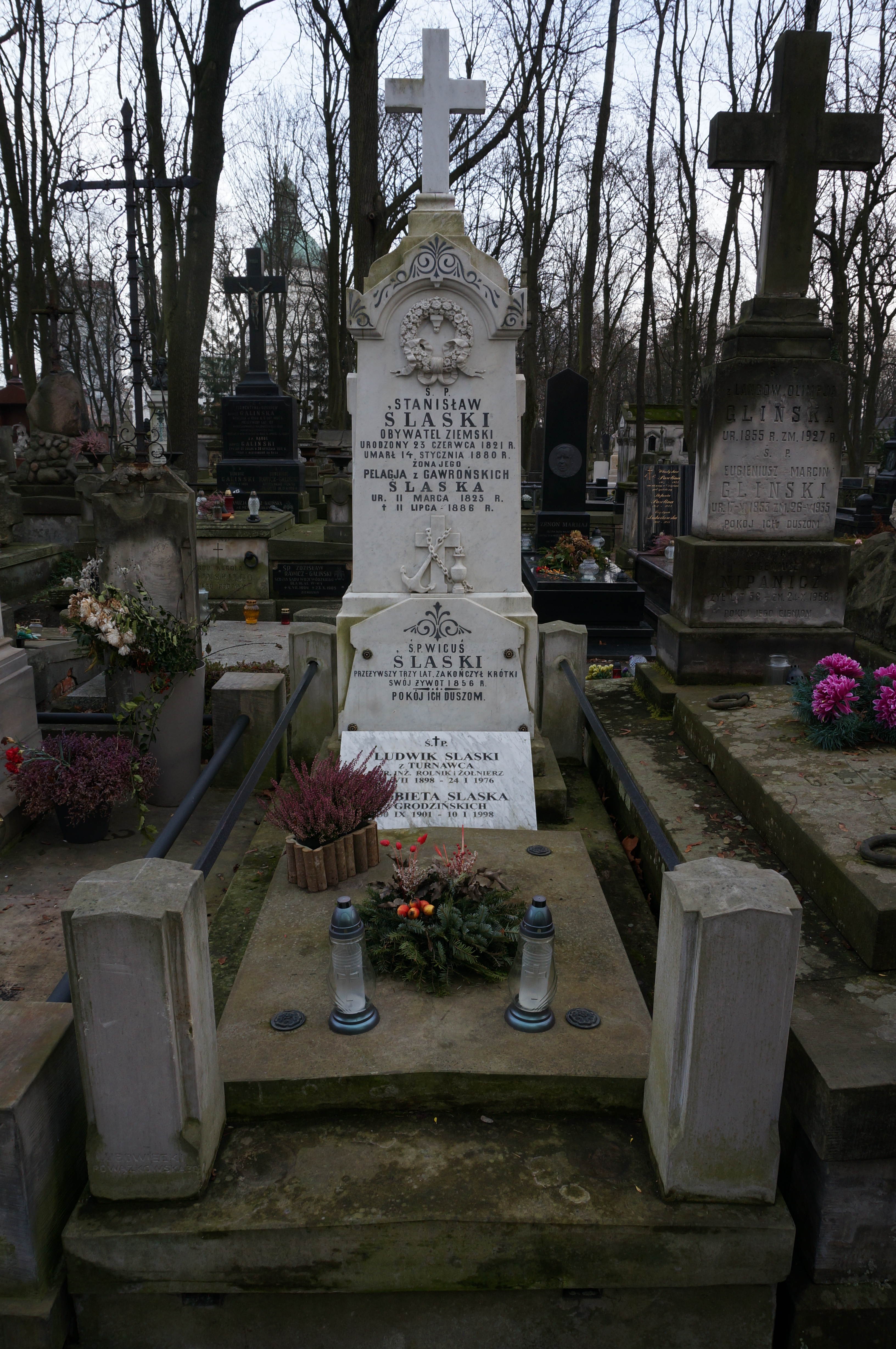 The grave of Ludwik Slaski at the Powązki Cemetery (section 21, row 4, grave 29)